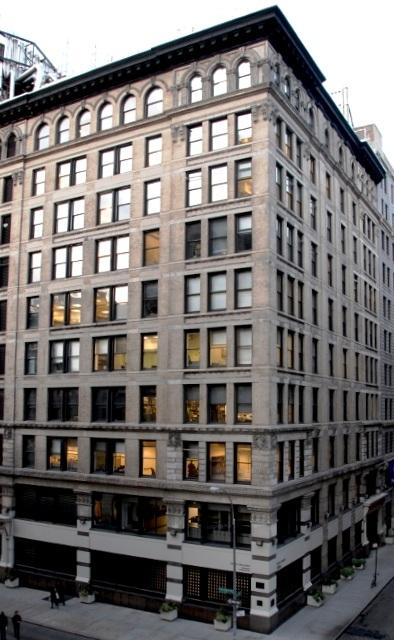 Brown building (New York University).